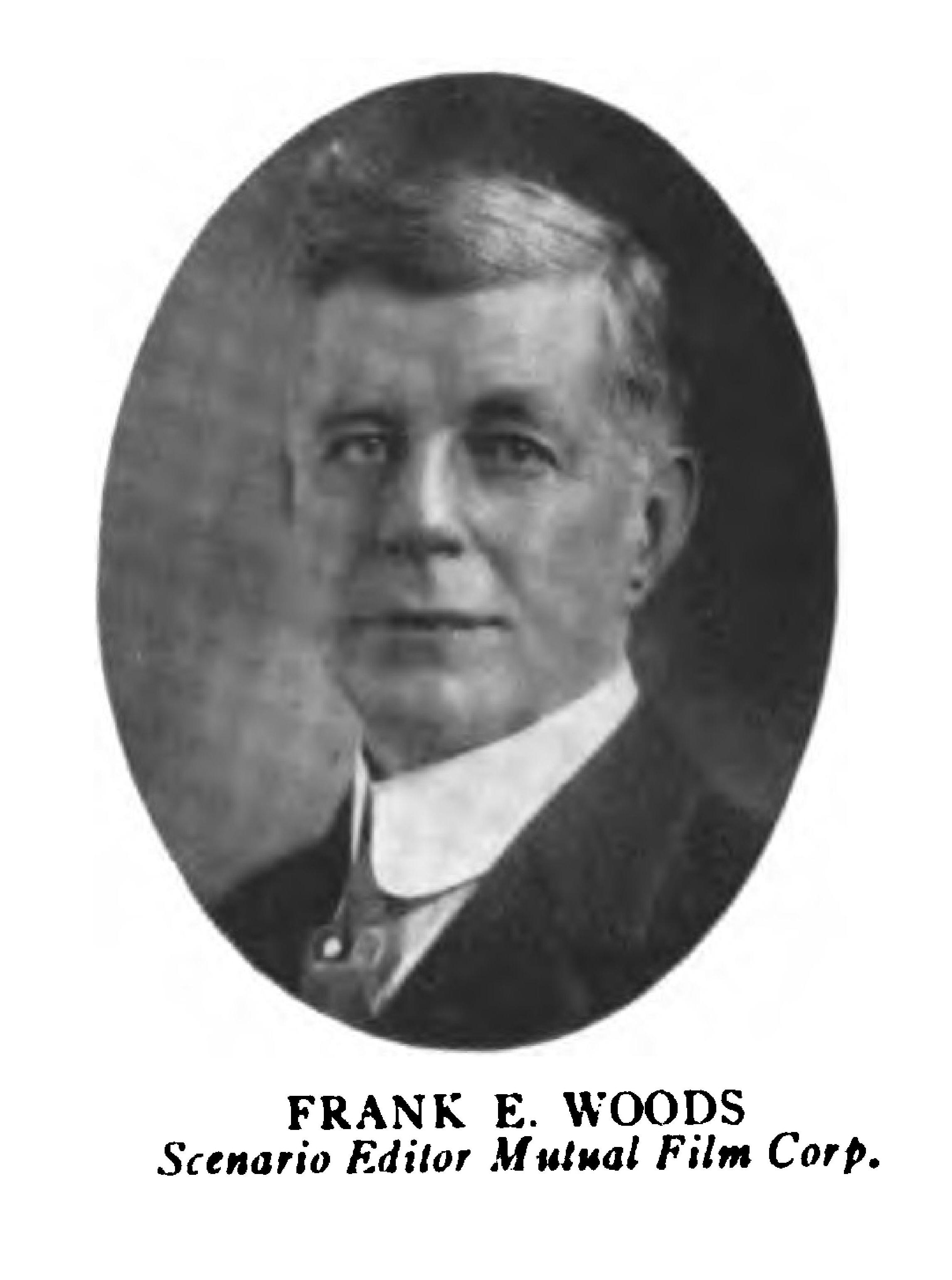 Frank E. Woods (1860 – 1 May 1939) was an American screenwriter of the silent era.